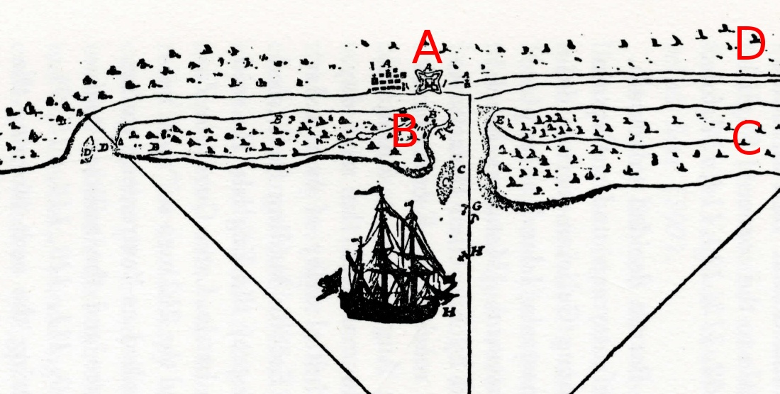 Detail from a period French map depicting the 1702 Siege of St. Augustine. Image has been cropped and annotated as follows: A: Location of town of St. Augustine and the Castillo de San Marcos B: Island across the Matanzas River channel. This is where the English landed their boats; the Spanish reinforcements were landed on the other end of the island. C: The retreat route of James Moore D: The arrival and retreat route of Robert Daniel